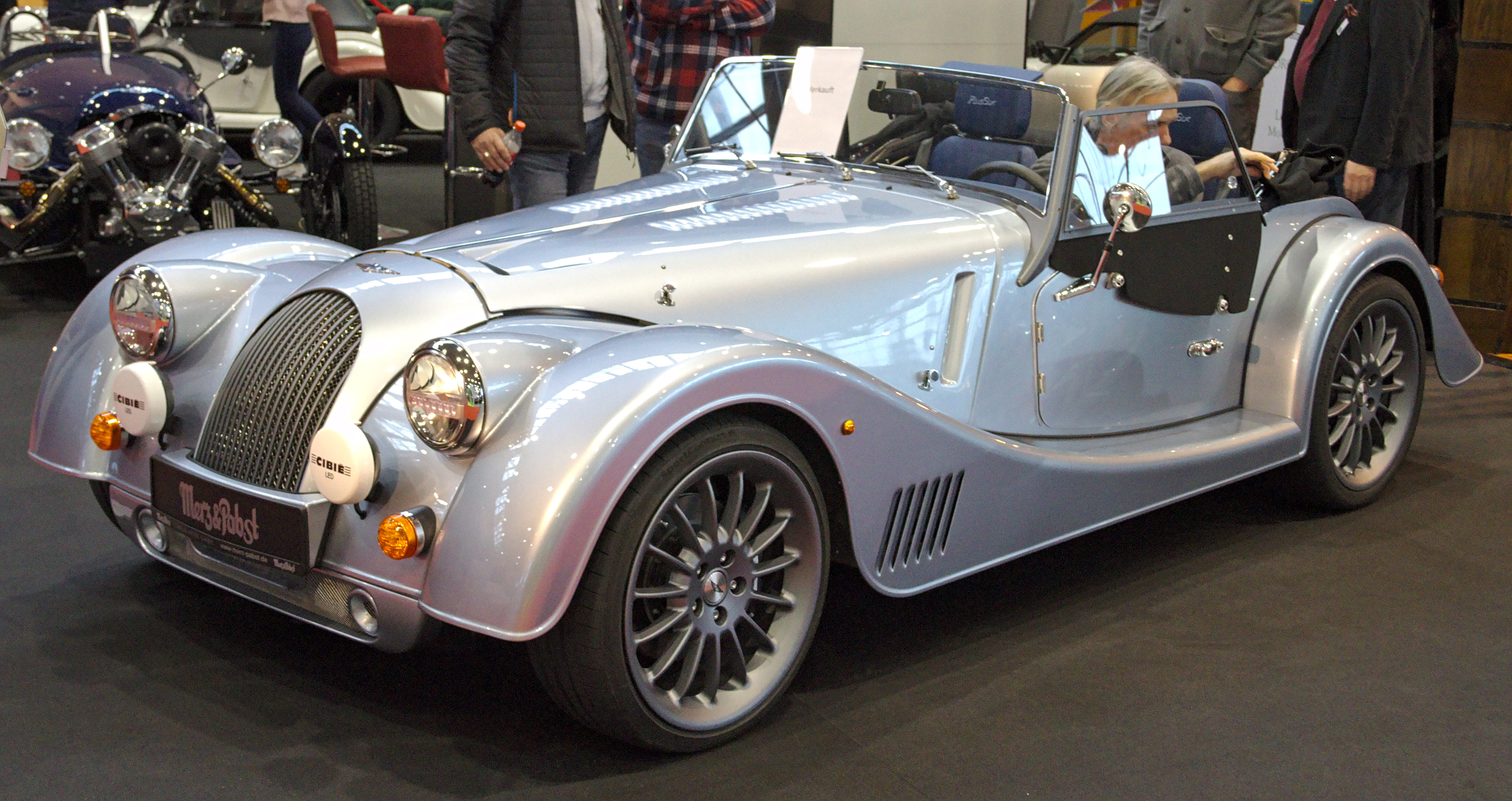 Morgan_Plus_6 at Retro Classics 2020